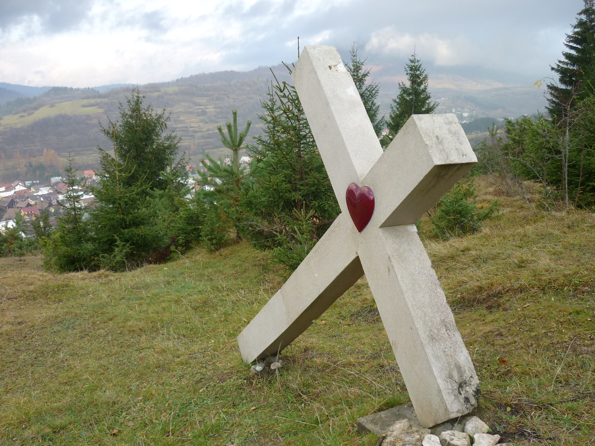 IV. stat. - Stations of Cross in Terchová (Slovakia)